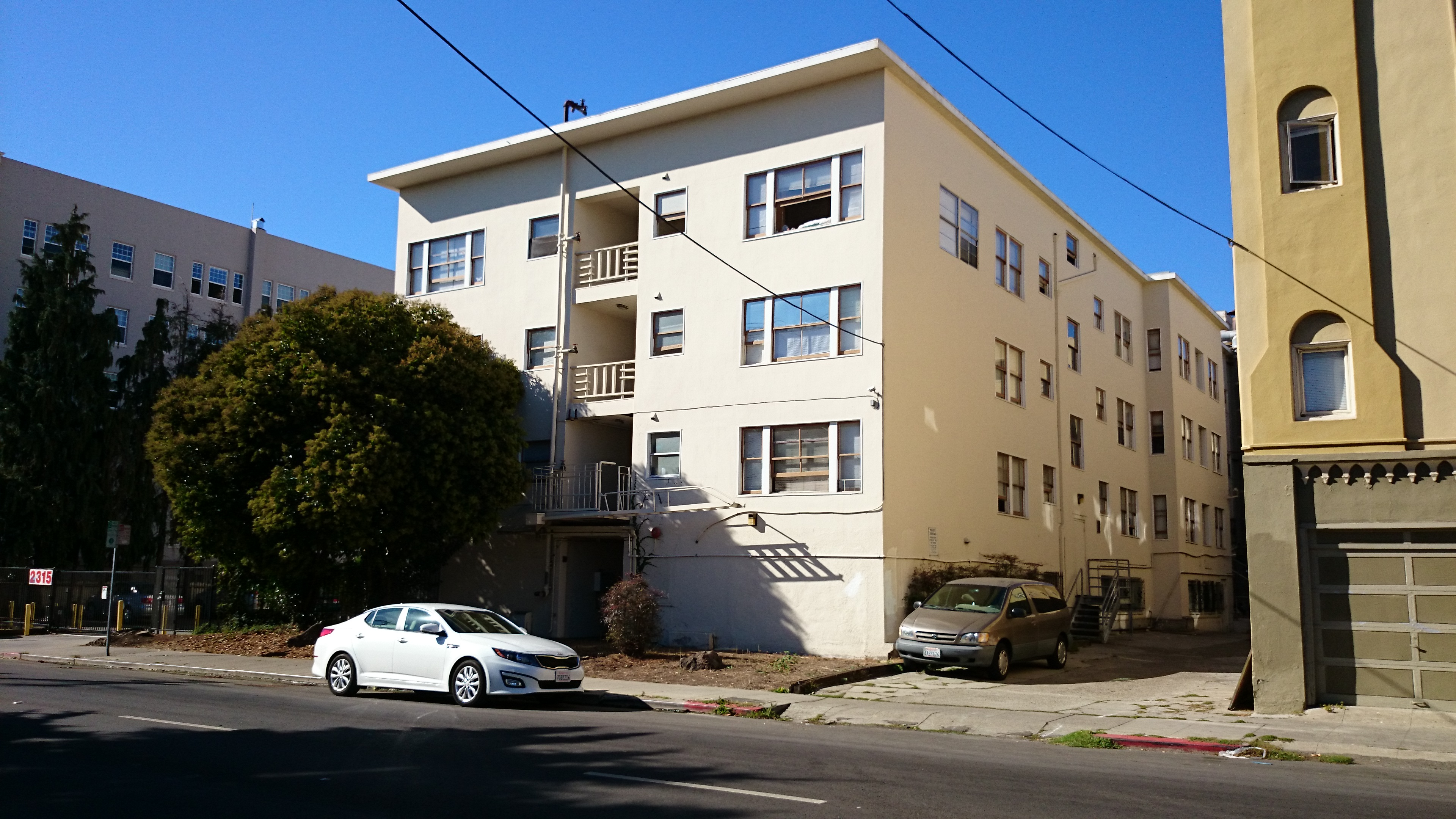 A picture of the state of what was once known as Barrington Hall. Taken on a walk through the city of Berkeley, California during mid afternoon on the 2nd of October 2014.